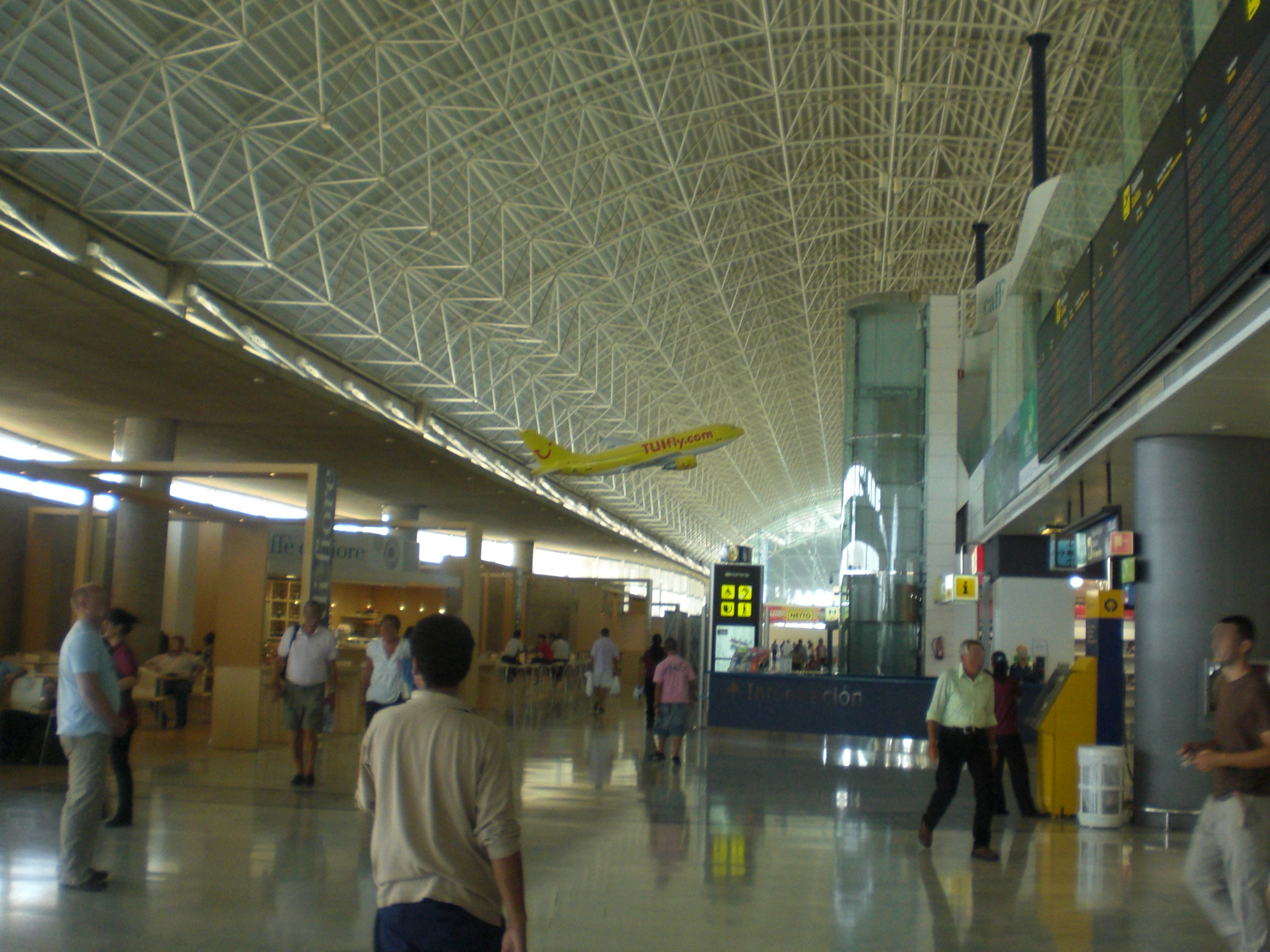 Terminal of Fuerteventura Airport